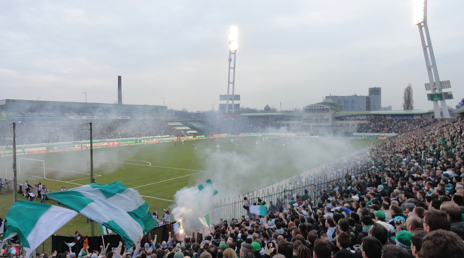 Hungarian derby: Ferencvárosi TC - Újpest FC. First half. (March 2013)